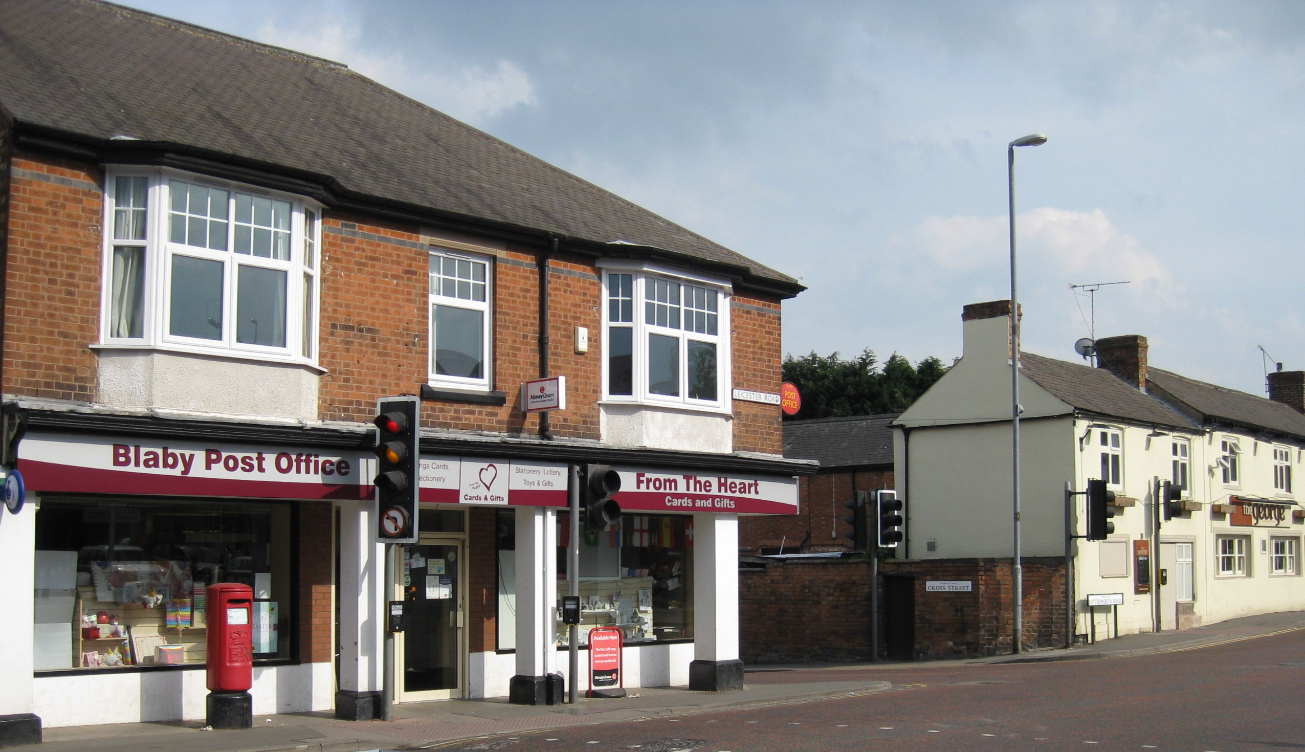 Blaby Post Office, Leicester Road, Blaby, Leicester, and what was the George public house [now The Fox and Tiger] Lutterworth Road. Crossroads with Cross Street